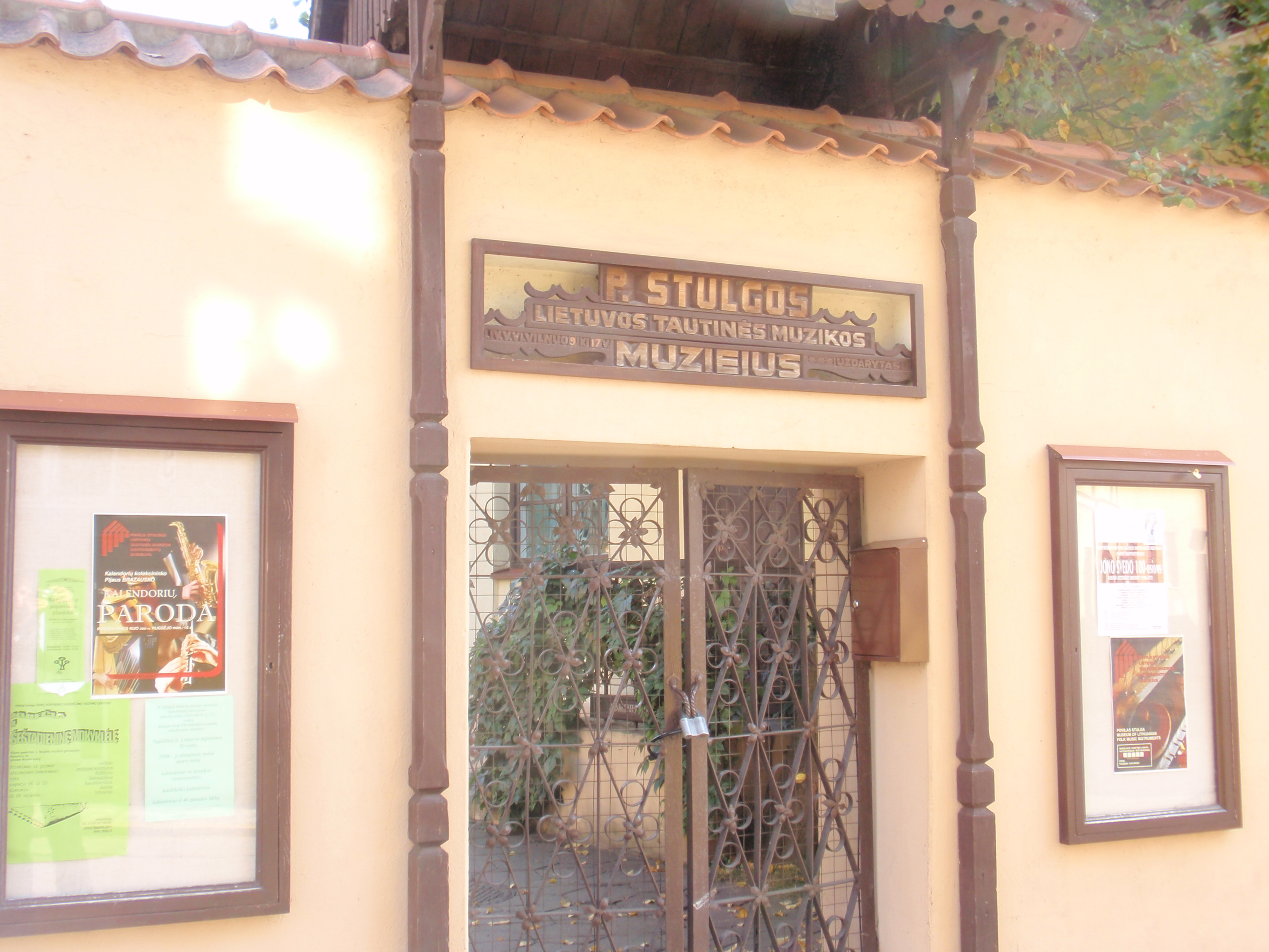 "Povilo Stulgos Lietuvos tautinės muzikos muziejus", the lithuanian national music museum "Povilas Stulga", in the street "Zamenhofo gatvė" (number 12) of the old town of Kaunas.